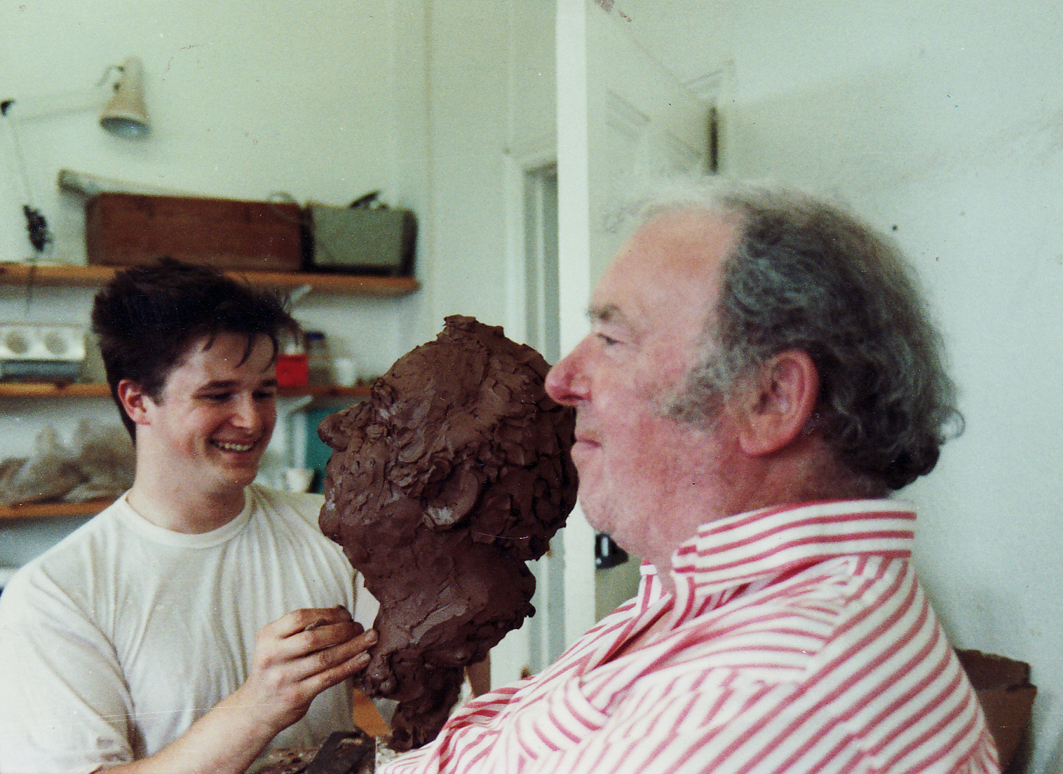 Sculpture of Freddie Jones